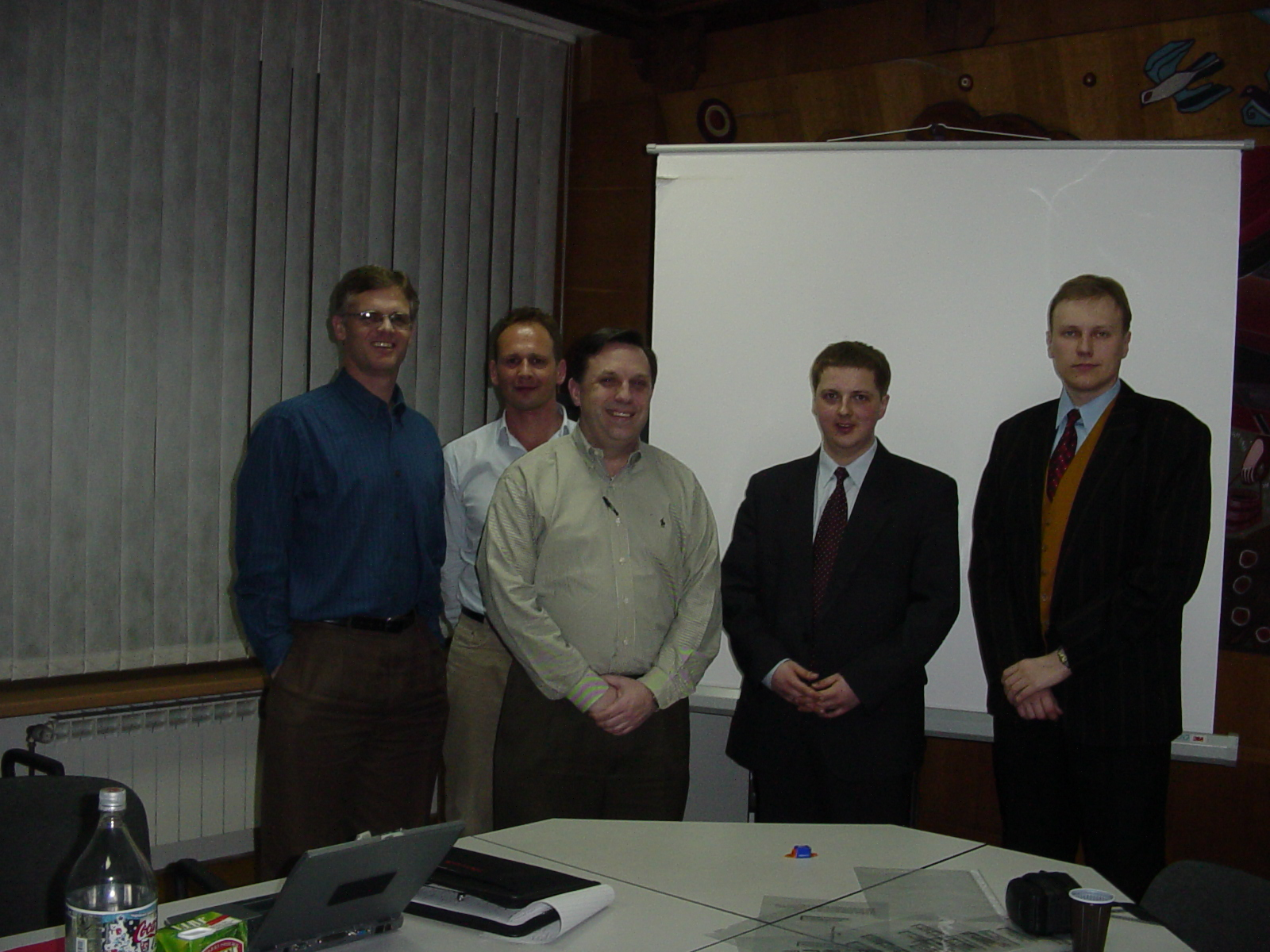 NovelliX meets Novell